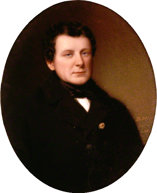 Daniel O'Connell. The charismatic pioneer of Irish popular politics, O'Connell had grown up in the shadow of the repressive 'Penal Laws' which maintained the social and civil inferiority of Catholics in Ireland. In 1823 he founded the Catholic Association to mobilise the entire Irish Catholic population in a systematic challenge to the Protestant ruling class, known as the 'Ascendancy'. By sheer force of numbers and the ultimate threat of civil war they finally achieved the Catholic Emancipation Act of 1829..